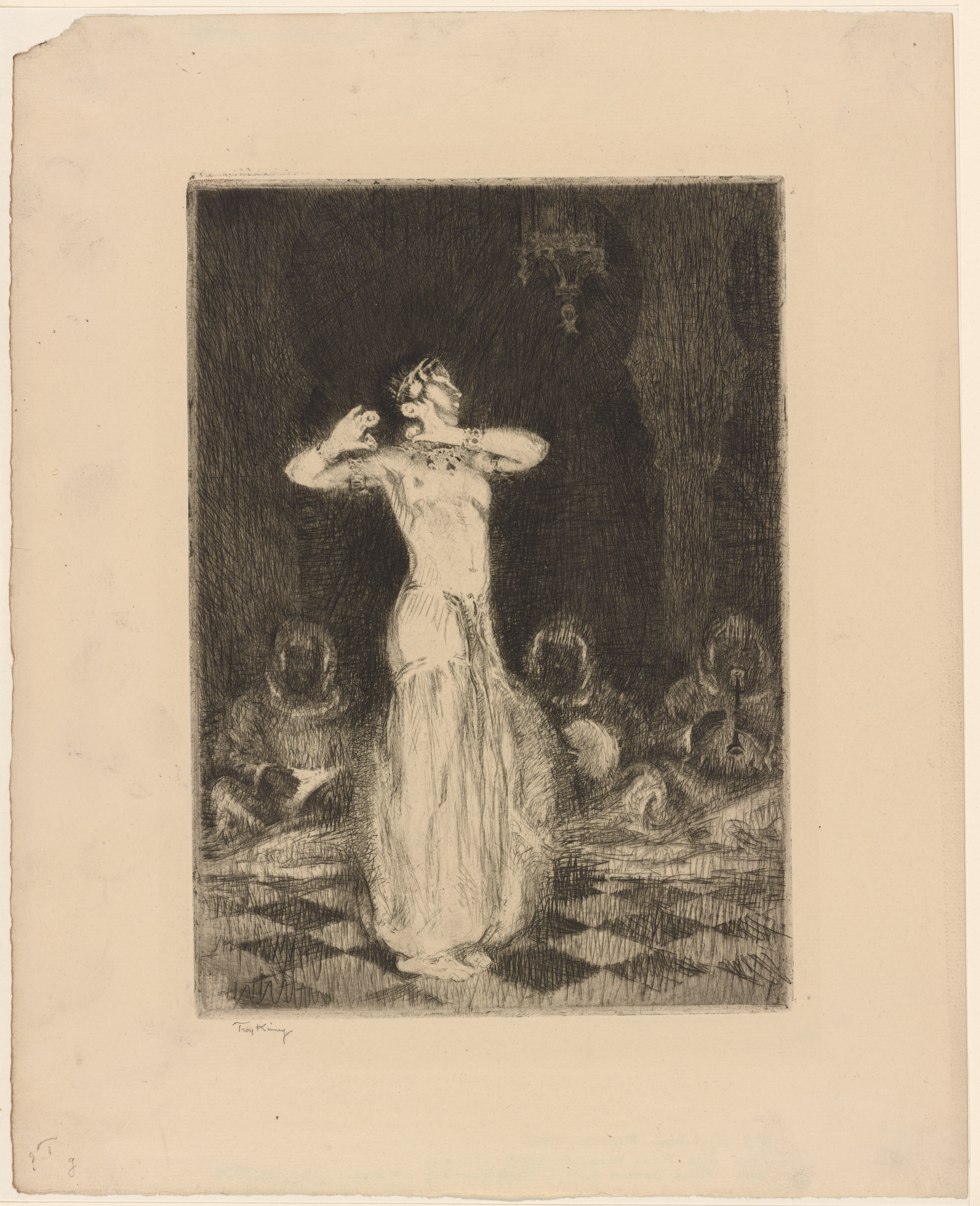 Full-length, twisted to the right, head in profile; arms bent at shoulder level. Wearing Middle Eastern costume with harem trousers, finger cymbols. Background: three musicians playing instruments and sitting on checkered floor.